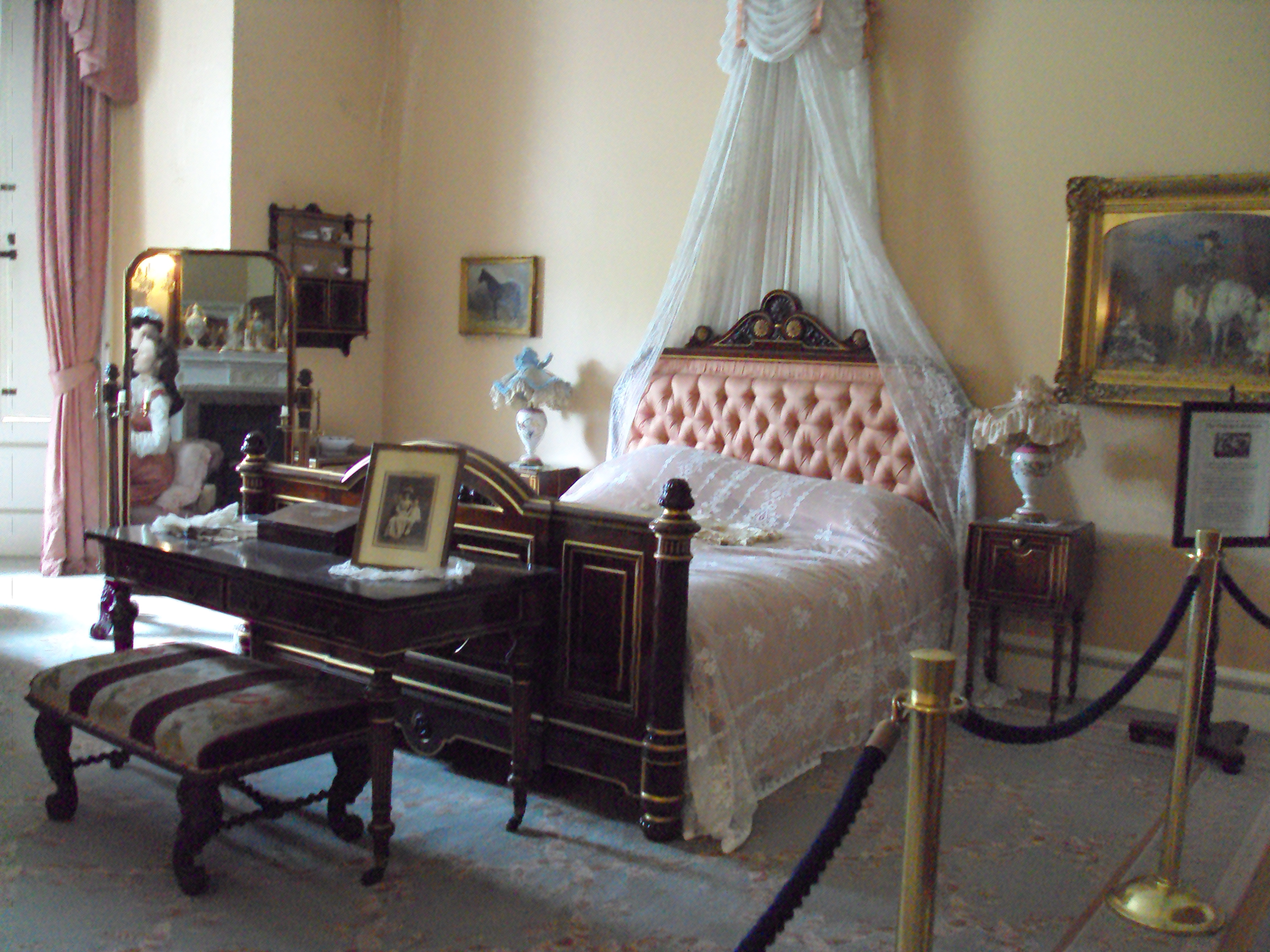 Inside Croxteth Hall, Liverpool, England. This room doubled as a hotelroom in Sherlock Holmes episodes "The Hound of the Baskervilles" (1988) and "The Eligible Bachelor" (1993). It also doubled as the Mayhew's hotelroom in the 2016 miniseries "The Witness for the Prosecution".